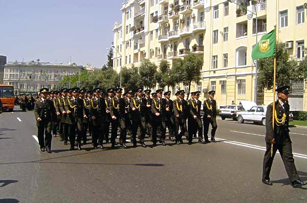 Picture from: [1], exact location: [2] uploaded by owner.